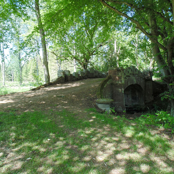 Craigston Castle Grounds - Self Catering / Bed & Breakfast Accommodation, Aberdeenshire Scotland